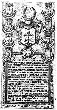 Nicht mehr existentes Epitaph des Würzburger Domherrn Johann Adolph von Hettersdorf (1678-1727), ehemals Sepultur des Kapitelshauses am Würzburger Dom.